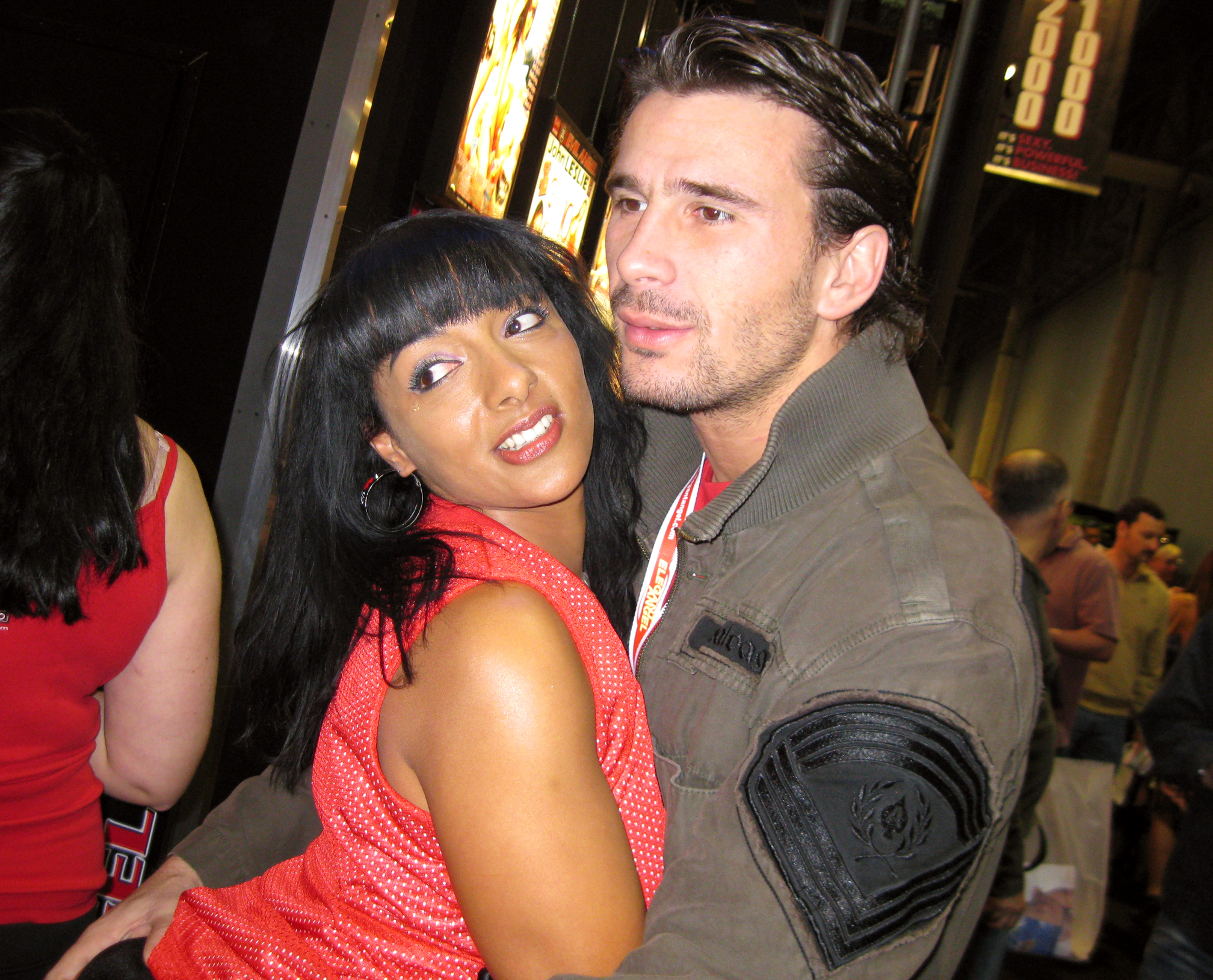 Loona Luxx with Manuel Ferrara.